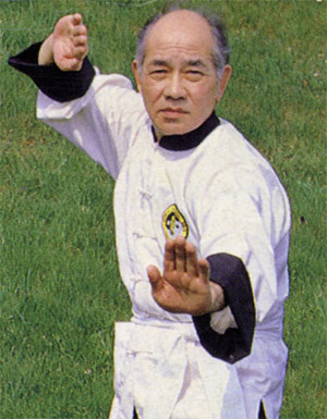 A photograph of Chee Soo performing Lee style Tai Chi dance